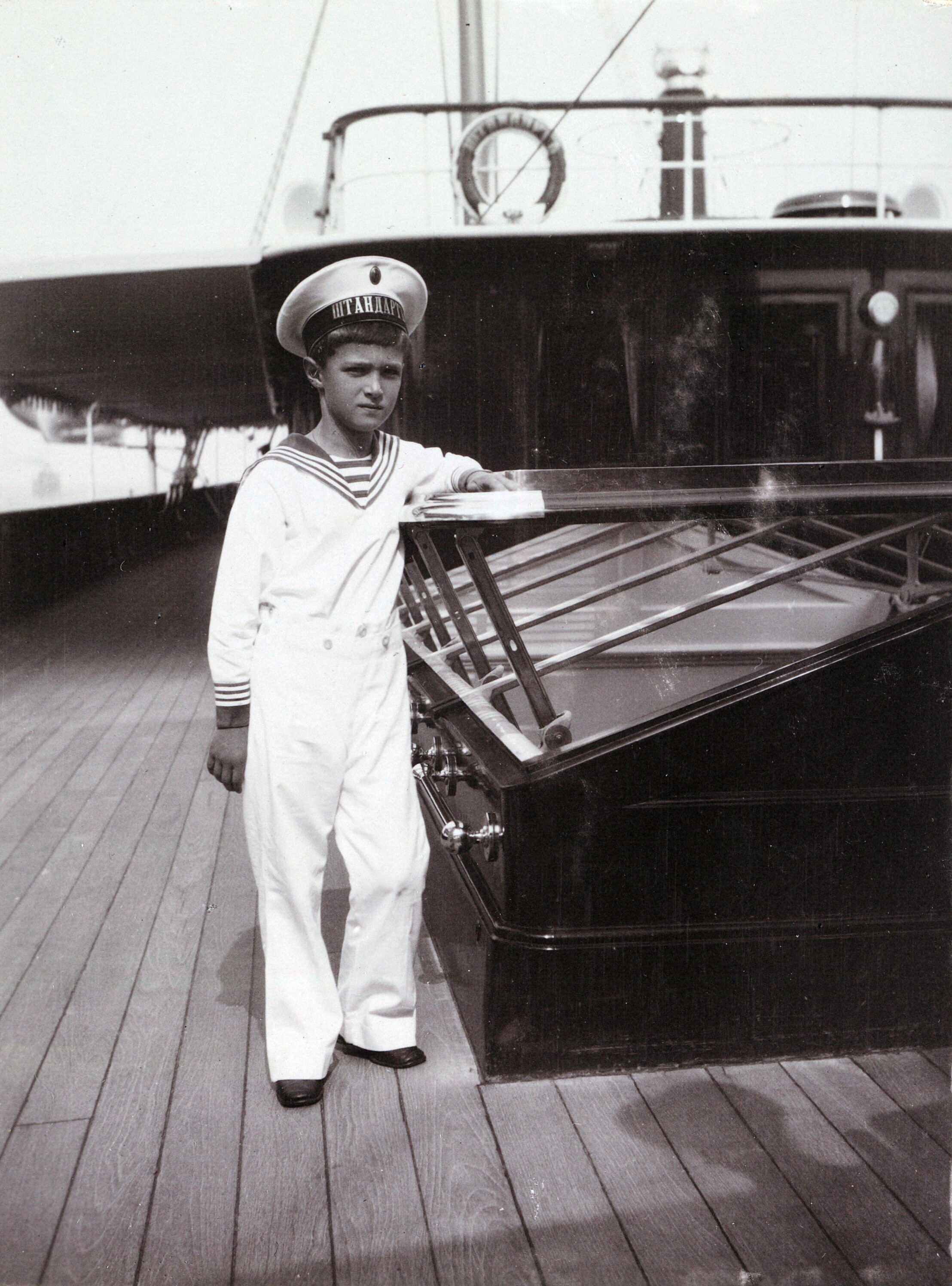 Alexei Nikolaevich, Tsarevich of Russia aboard the Imperial yacht Standart.